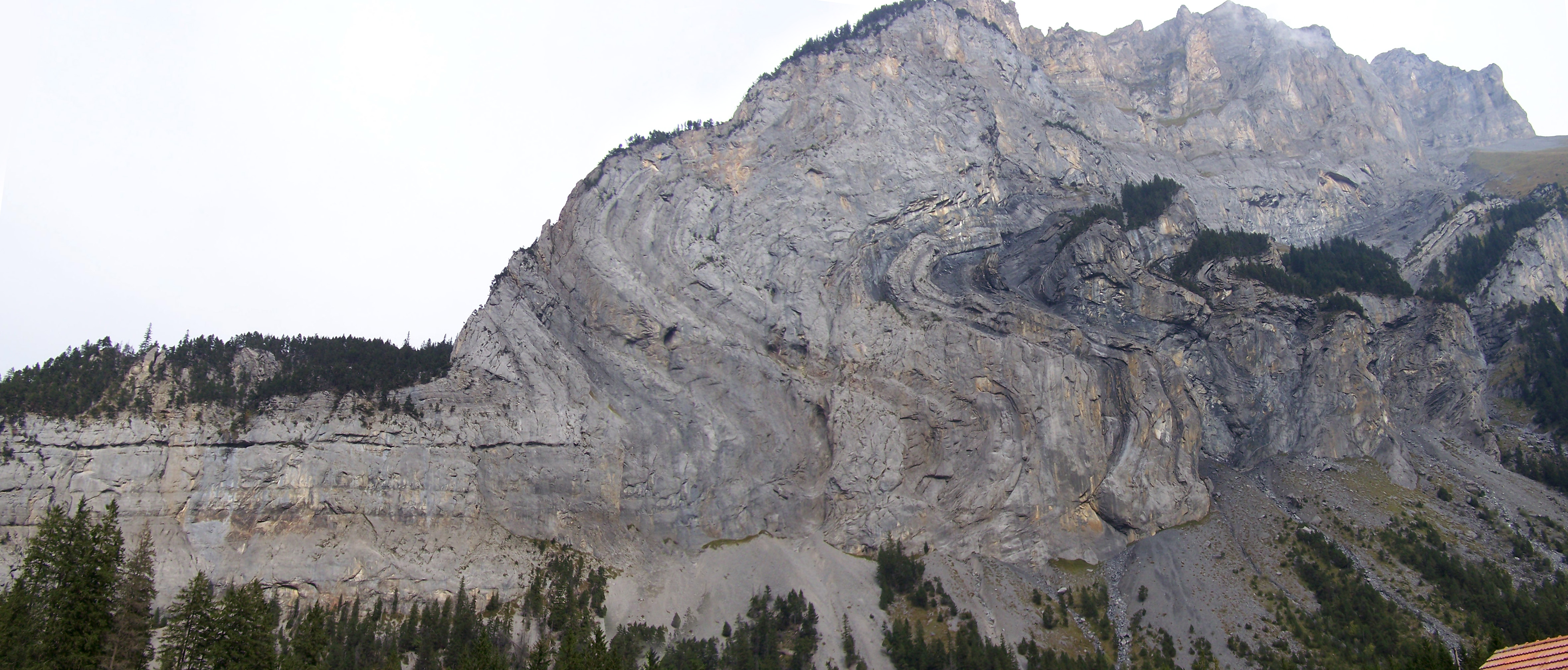 Detachment folding in Lower Jurassic limestone layers of the Doldenhorn nappe, Gasteretal, Switzerland. Location is at the Waldhus, looking north. Scale of the outcrop is about 1 km from left (west) to right (east). Mountain ridge is from Jegertosse (2154 m, left) to the Innerer Fisistock (2787 m)